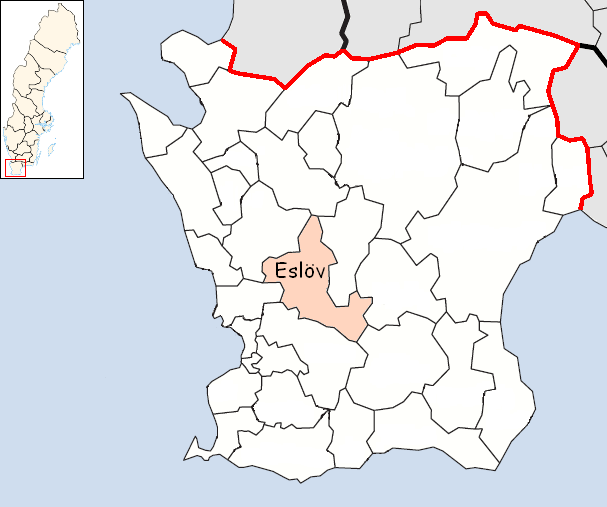 Eslöv Municipality in Scania, Sweden Designed by me. Mere outlines are a PD source from